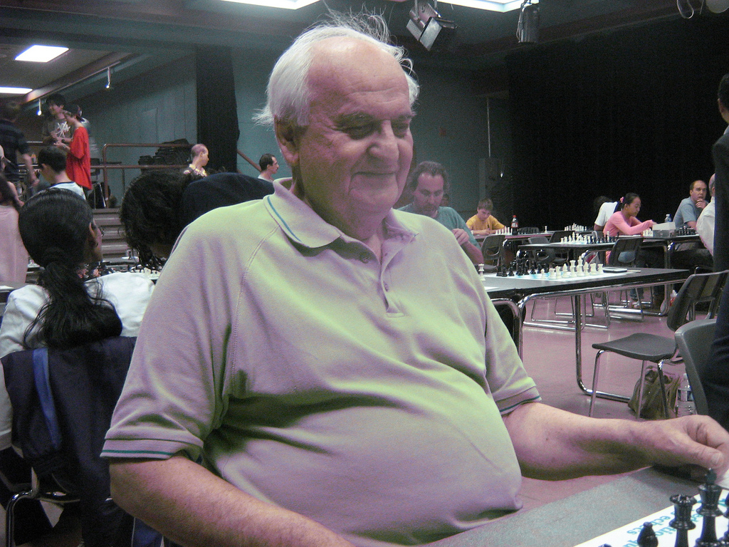 GM Borislav Ivkov Serbia.